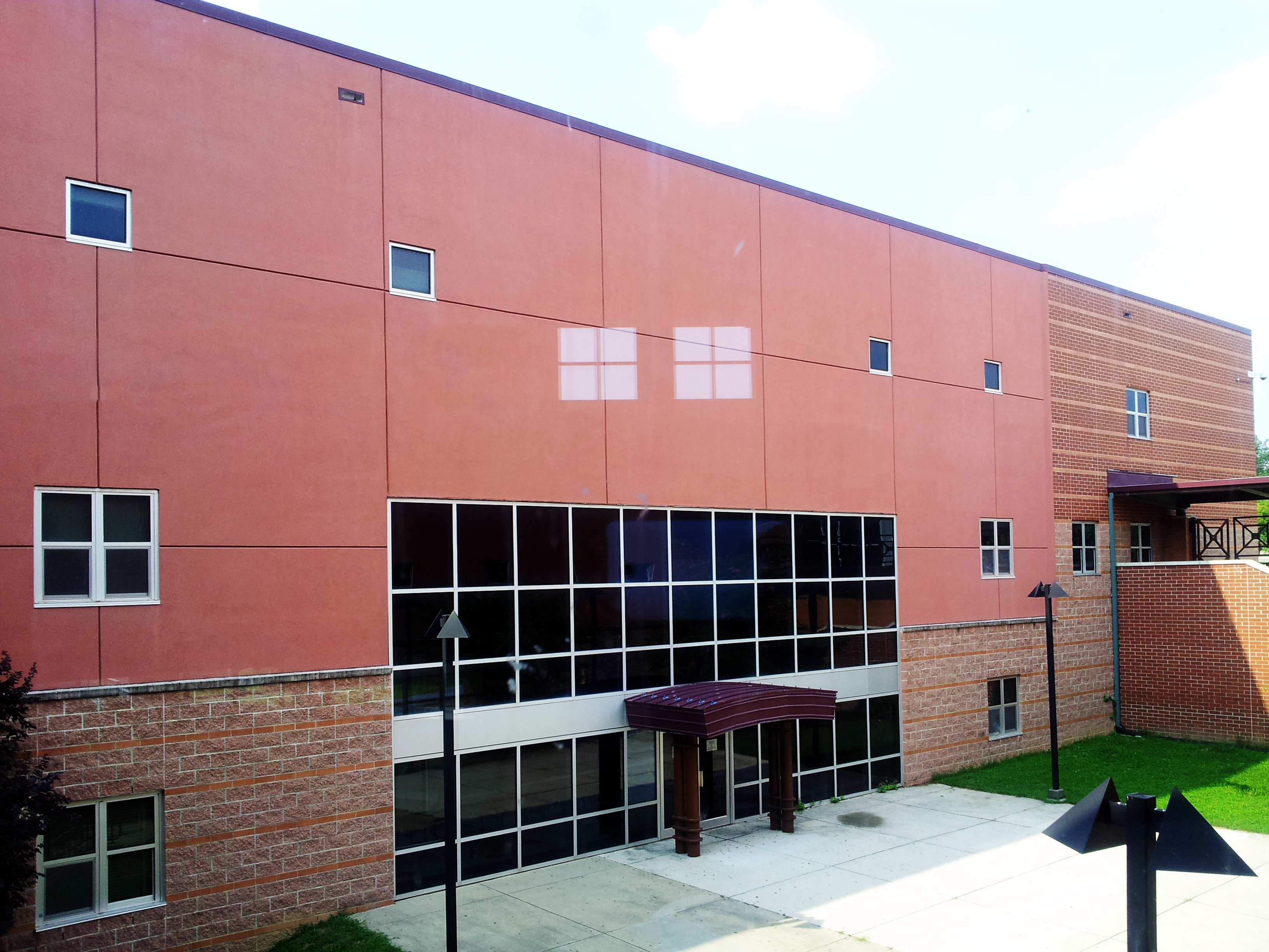 The B/G-Building at Northwestern High School in Hyattsville, MD, USA. The large glass "wall" area on the side of the building is one of three "satellite cafeteria's" at Northwestern. These satellite cafeteria's supplement the main food court.